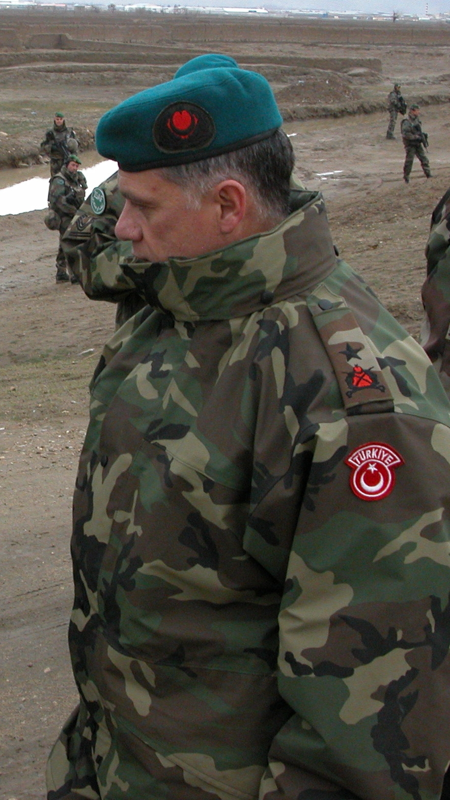 Turkish general in Afghanistan